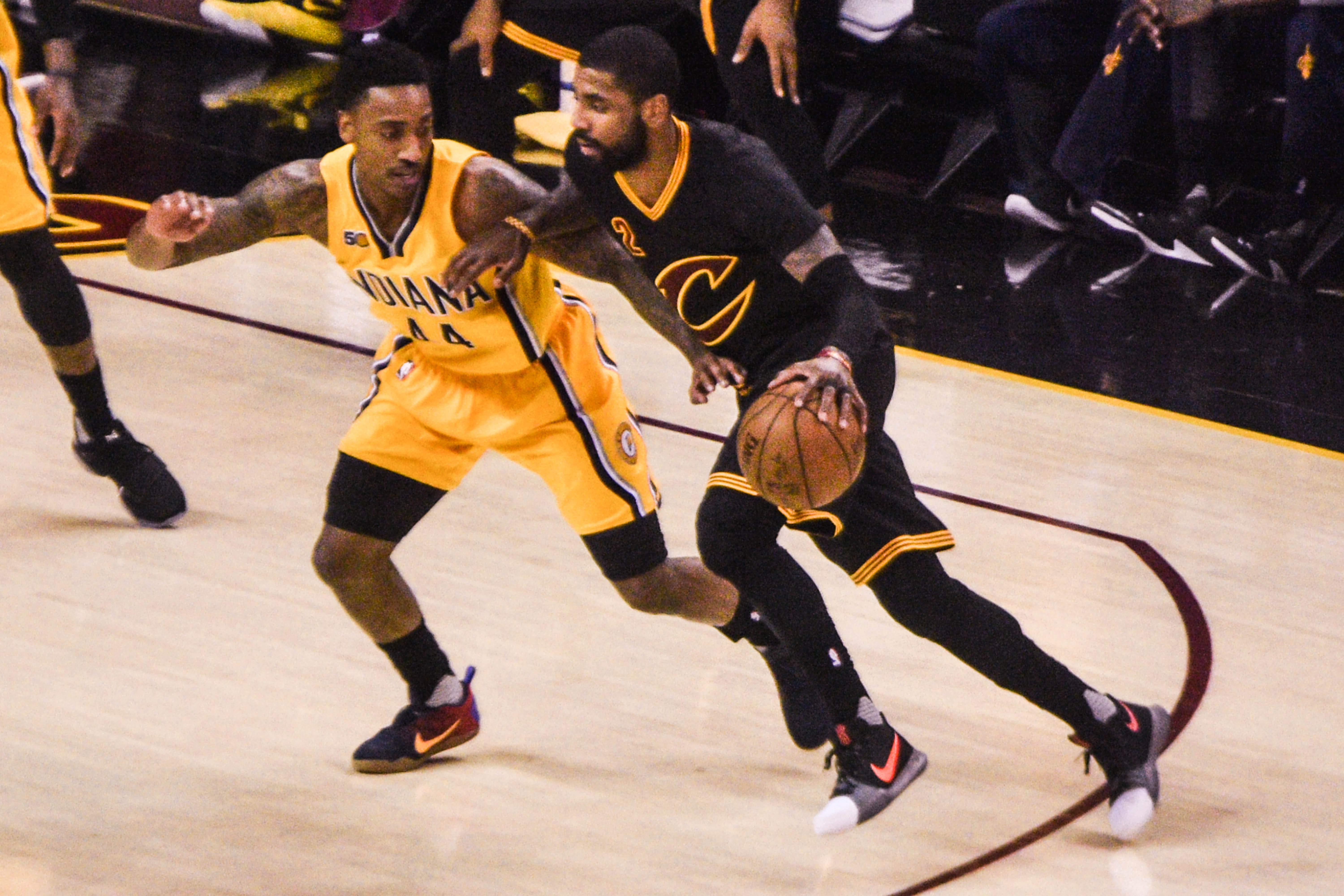 Jeff Teague of the Indiana Pacers, and Kyrie Irving of the Cleveland Cavaliers